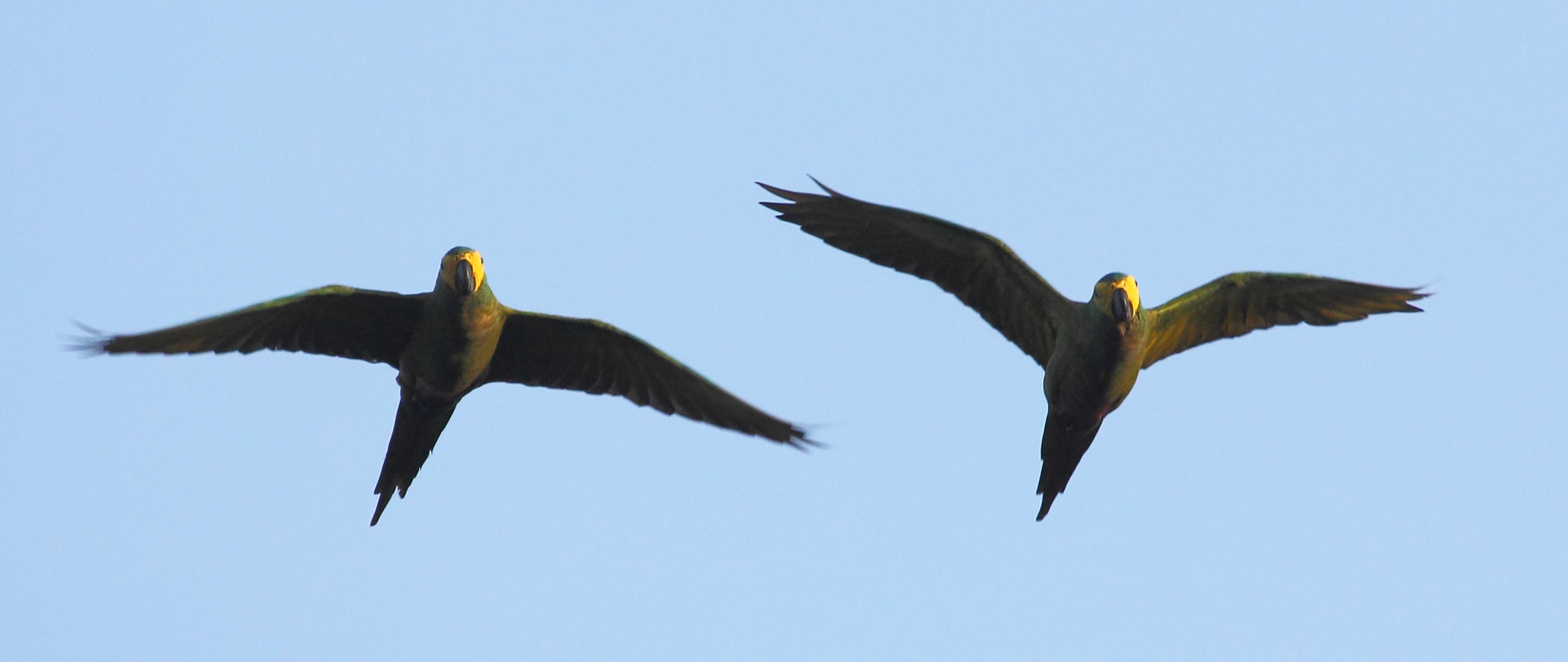 Two Red-bellied Macaws flying near the Amerindian Reservation of Santa Mission, Guyana.